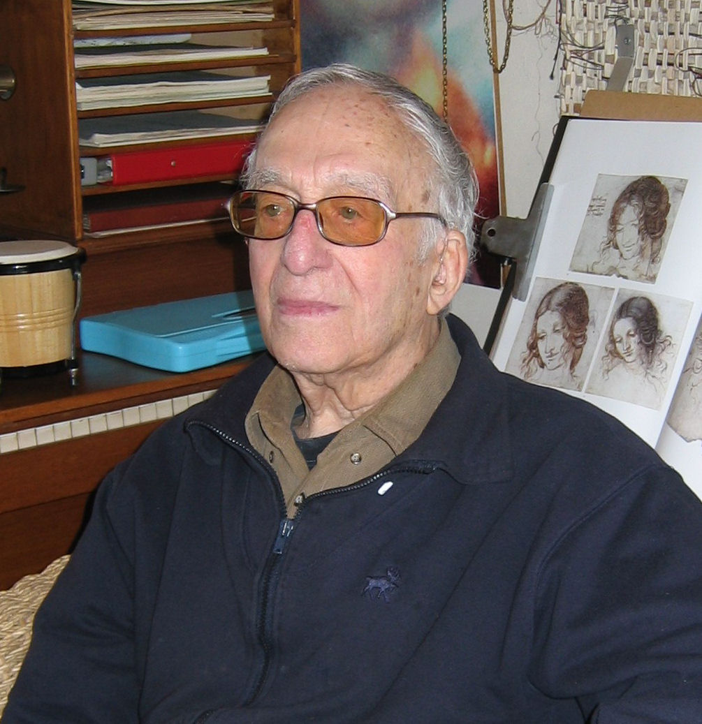 Jaap van der Poll at home, March 2009